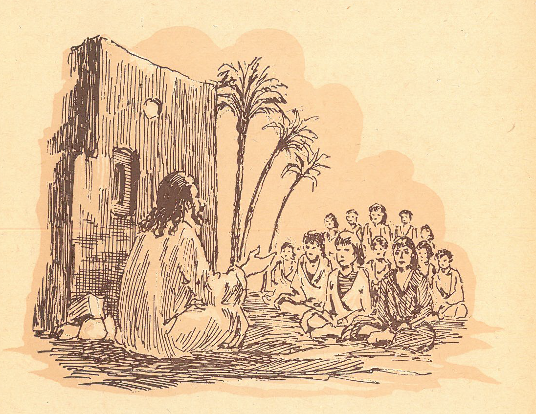 A Qurayshi prisoner captured after the Battle of Badr, teaching Muslim Children how to read and write, in exchange for his freedom.